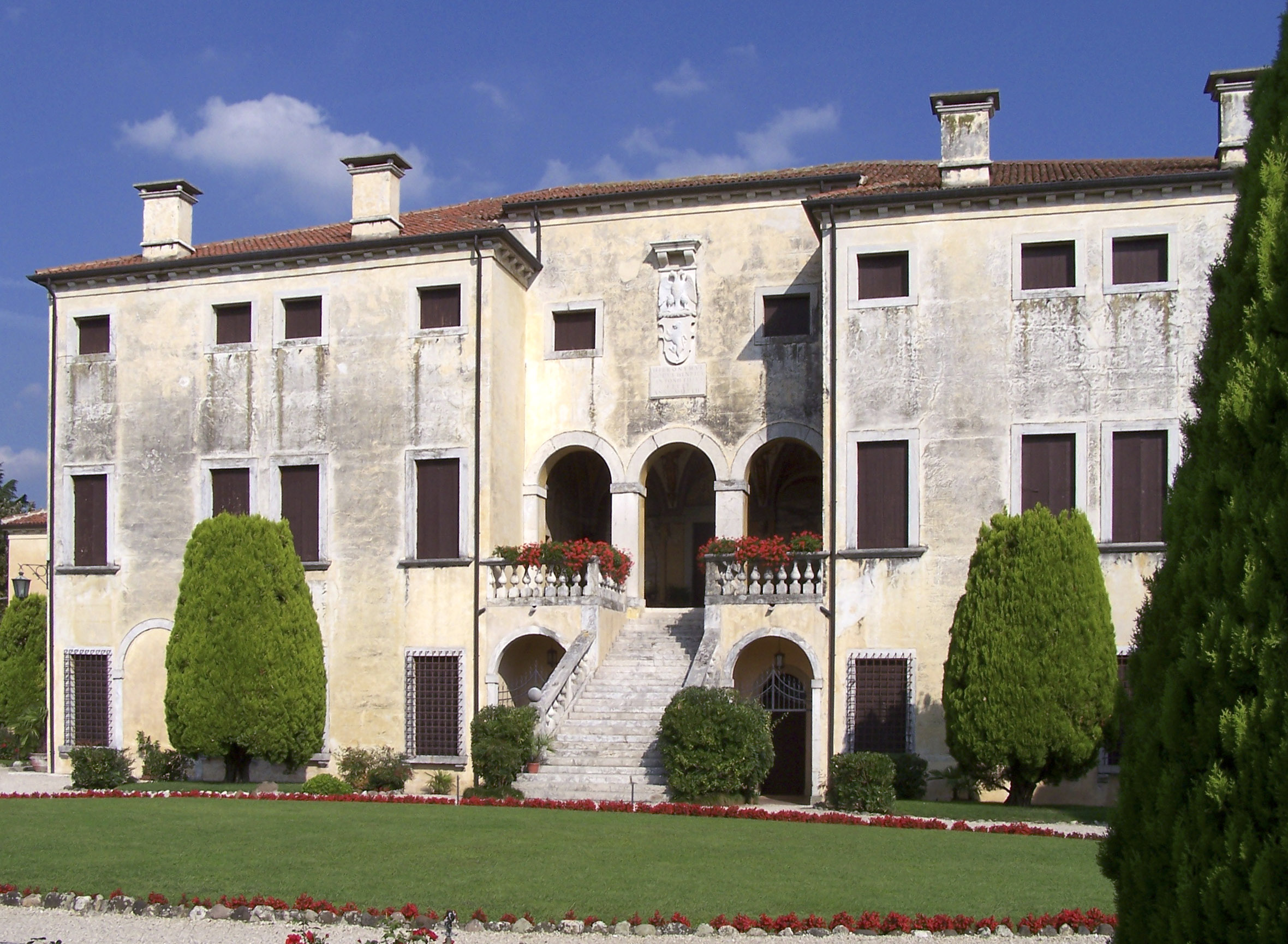 Palladios first commission: the Villa Godi in the hills of the Veneto region of northern Italy.